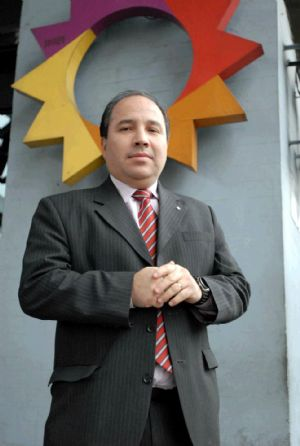 Mauricio Saldivar